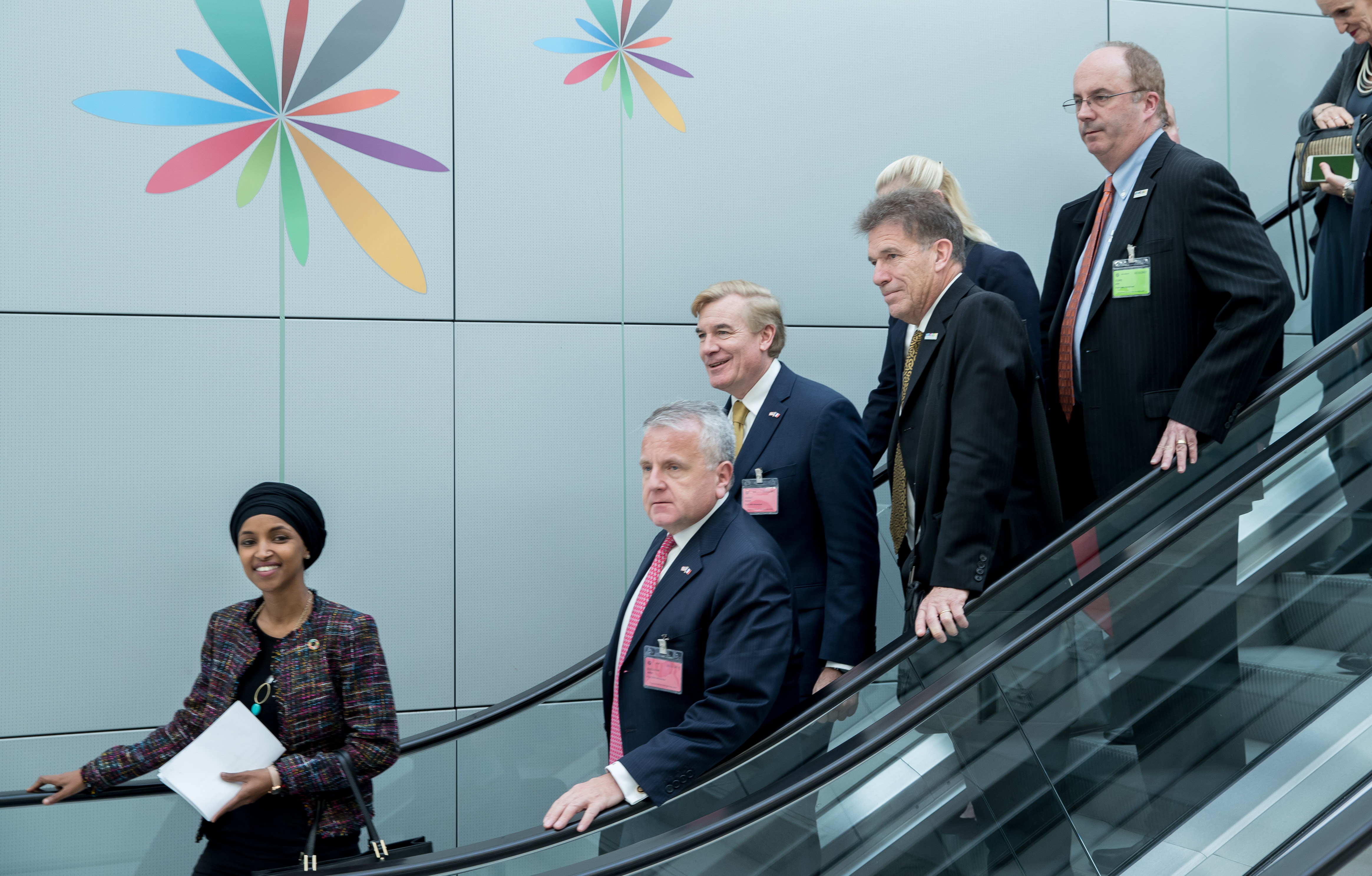 Deputy Secretary of State John Sullivan flanked by (L to R) Minnesotan State Representative Ilhan Omar, Chargé d’Affaires Brent Hardt from U.S. Embassy Paris, Minnesota World's Fair Bid Committee President Mark Ritchie, Expo Unit Director Jim Core arrives at the Bureau International des Expositions (BIE) General Assembly in Paris to present the Minnesota bid in Paris, France on November 15, 2017. [State Department Photo/ Public Domain]